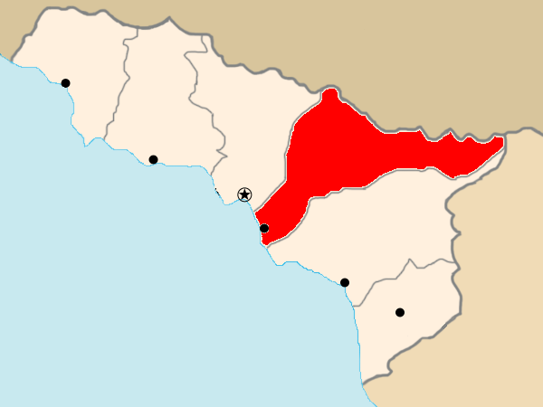 Gulripsh district on the map of Autonomous Republic of Abkhazia